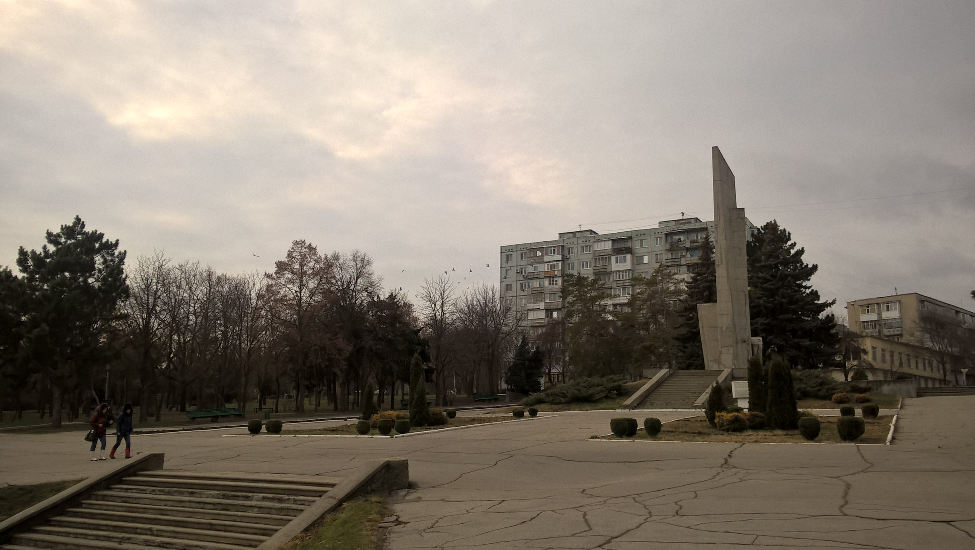 Monument to 1919 Bender Uprising in Bender in a square near Dniester